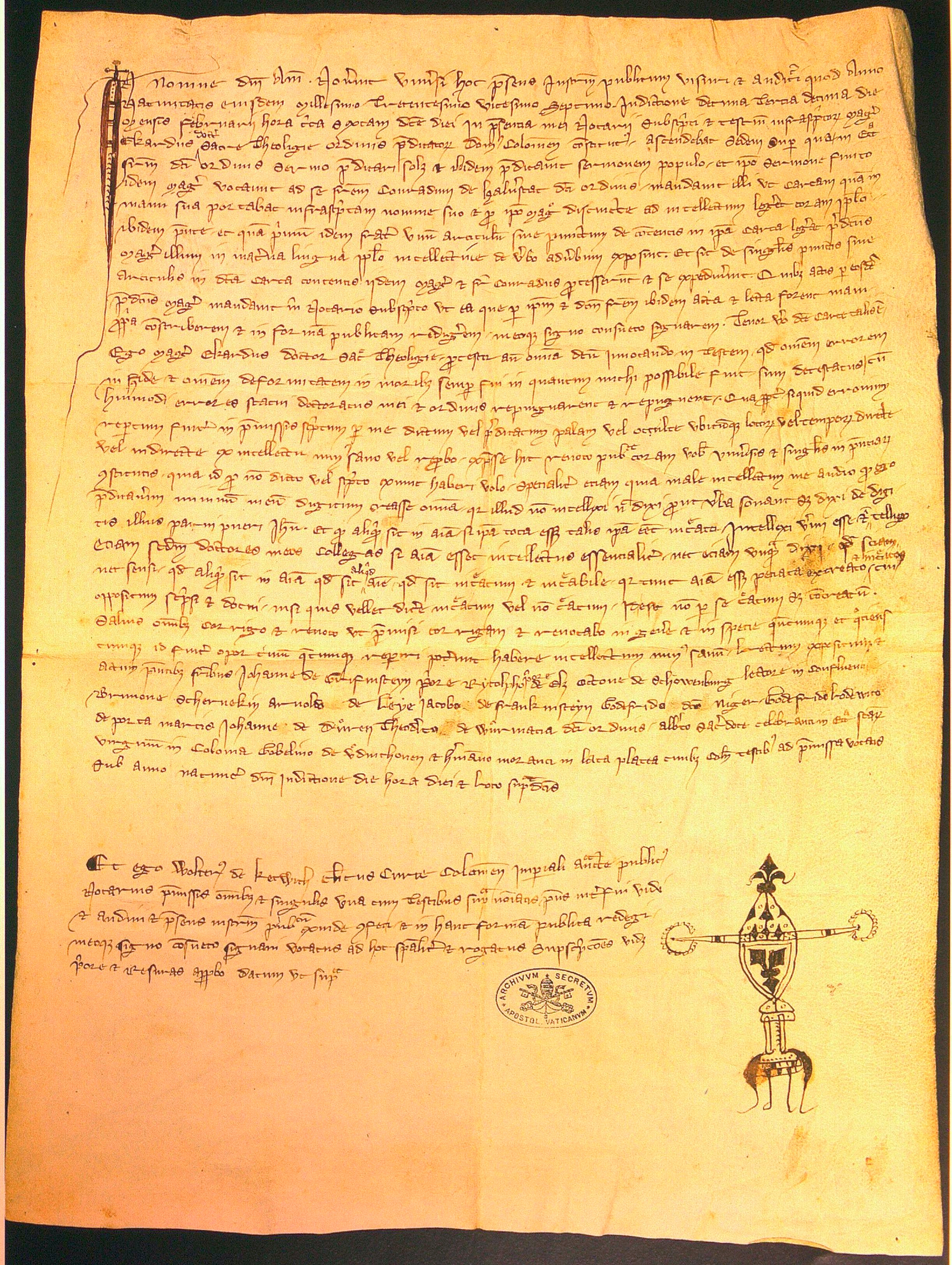 The notarial instrument concerning Meister Eckhart’s public recantation of his „errors“, issued at Cologne and sent to the papal chancery before Eckhart went to the papal court at Avignon. Vatican City, Archivio Segreto Vaticano, Archivum Arcis, Arm. C, 1123.